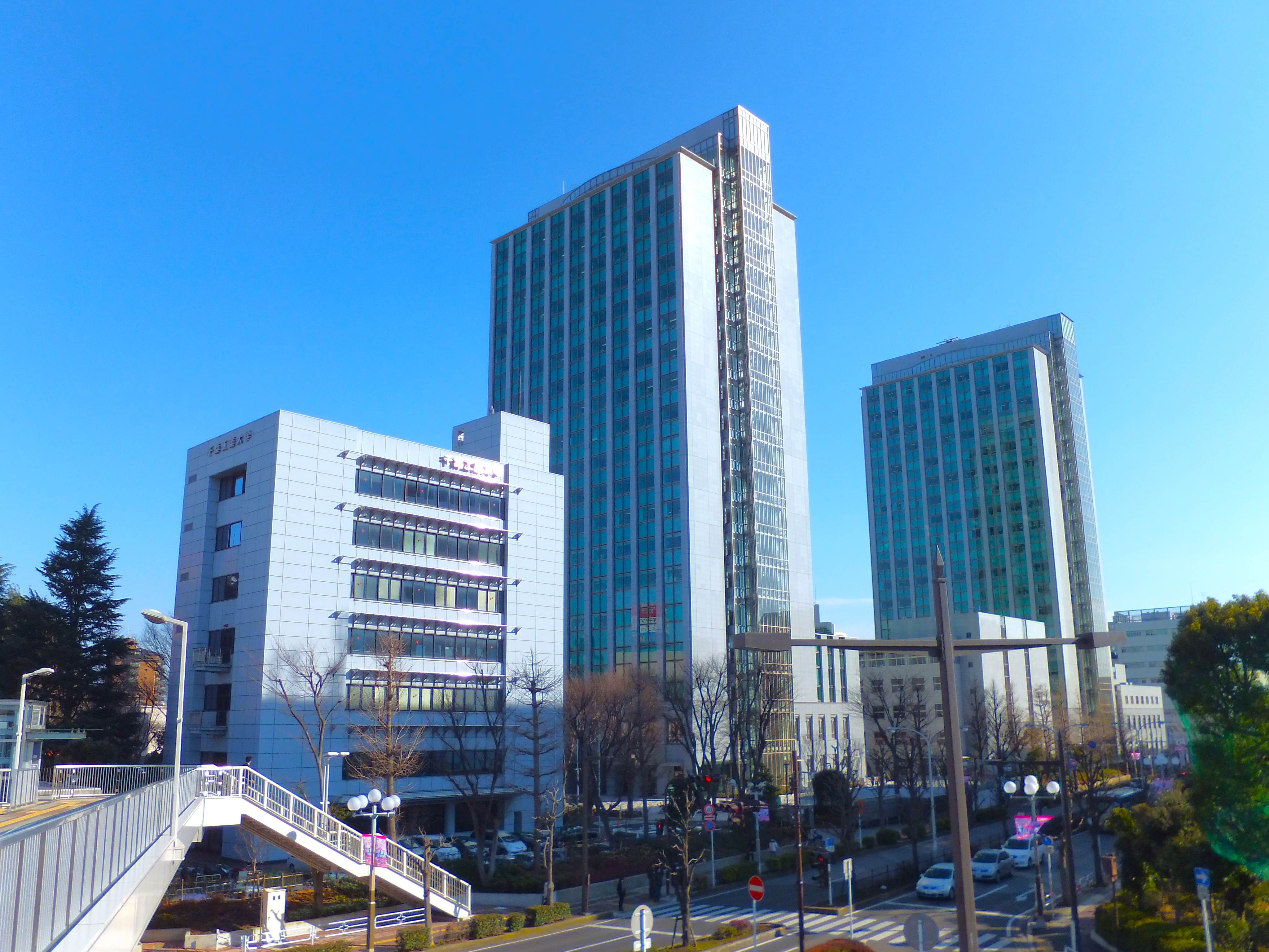 Tsudanuma Campus of the Chiba Institute of Technology, in Narashino City, Chiba Prefecture, Japan.